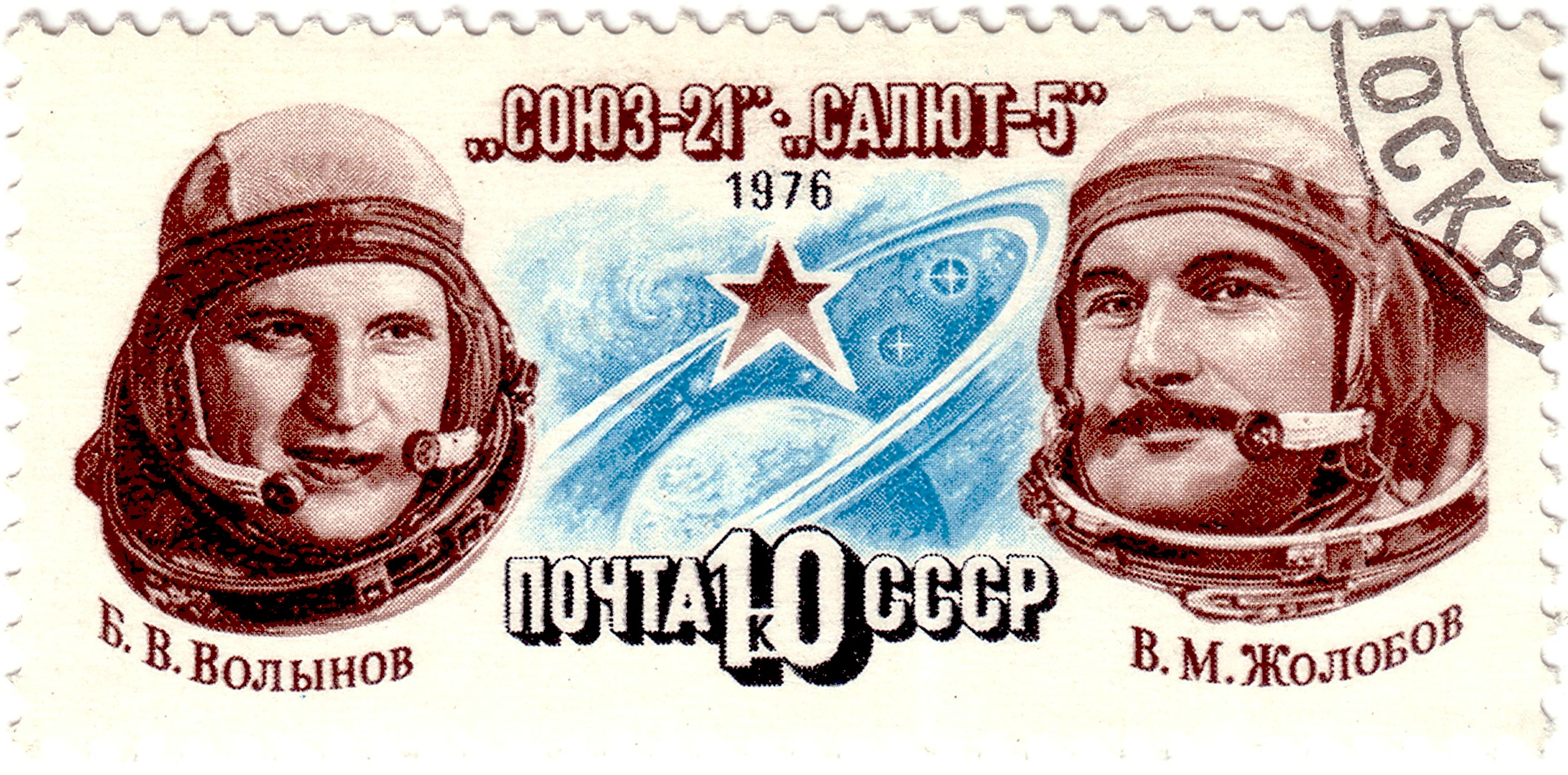 Soyuz 21 space mission, stamp of the Soviet Union, 1976, 10 kopecks